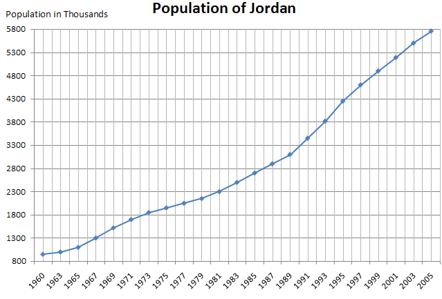 Jordan's population (1960-2005).